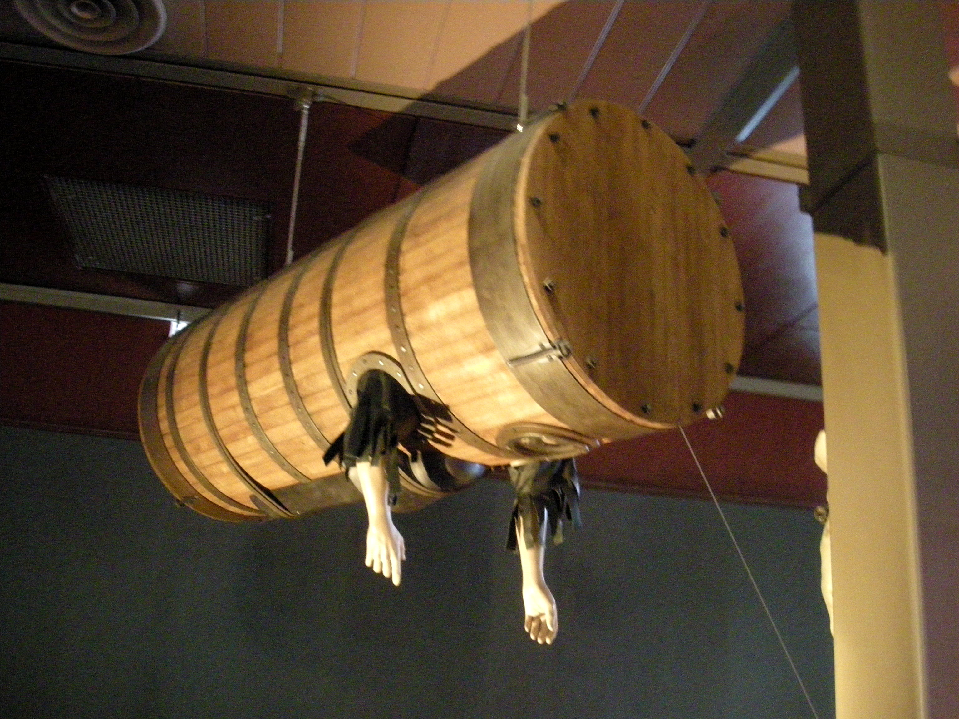 Replica of the John Lethbridge barrel (1715), intermediate between diving bell and standard diving dress. Cité de la Mer, a maritime museum in Cherbourg, France.